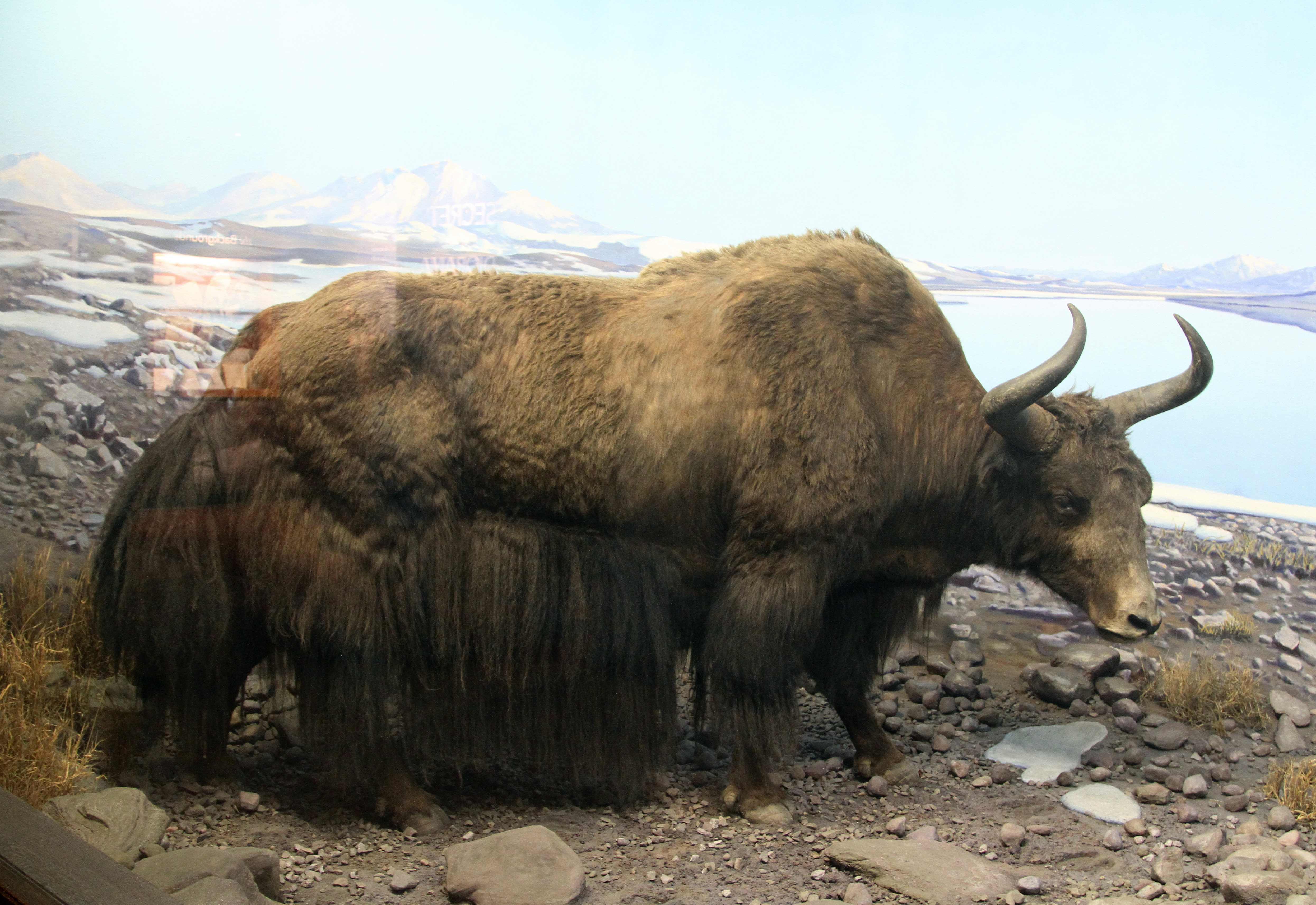 Wild Yak Stuffed